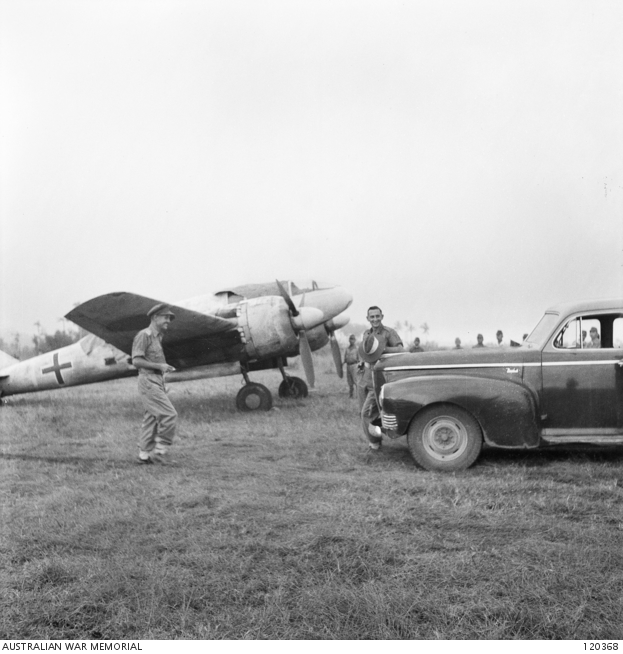 MENADO, CELEBES 1945-10-03. OCCUPATION BY MENADO FORCE. QX6236 LIEUTENANT COLONEL R. A. C. MUIR, COMMANDER OF THE FORCE, AND COLONEL DE ROOY, NETHERLANDS EAST INDIES ARMY INSPECTING JAPANESE PLANES AT LANGOWAN. THE PLANES HAVE BEEN PAINTED WITH GREEN CROSSES ON A WHITE BACKGROUND, THE AGREED SURRENDER COLOURS. (PHOTOGRAPHER SSGT R. L. STEWART)